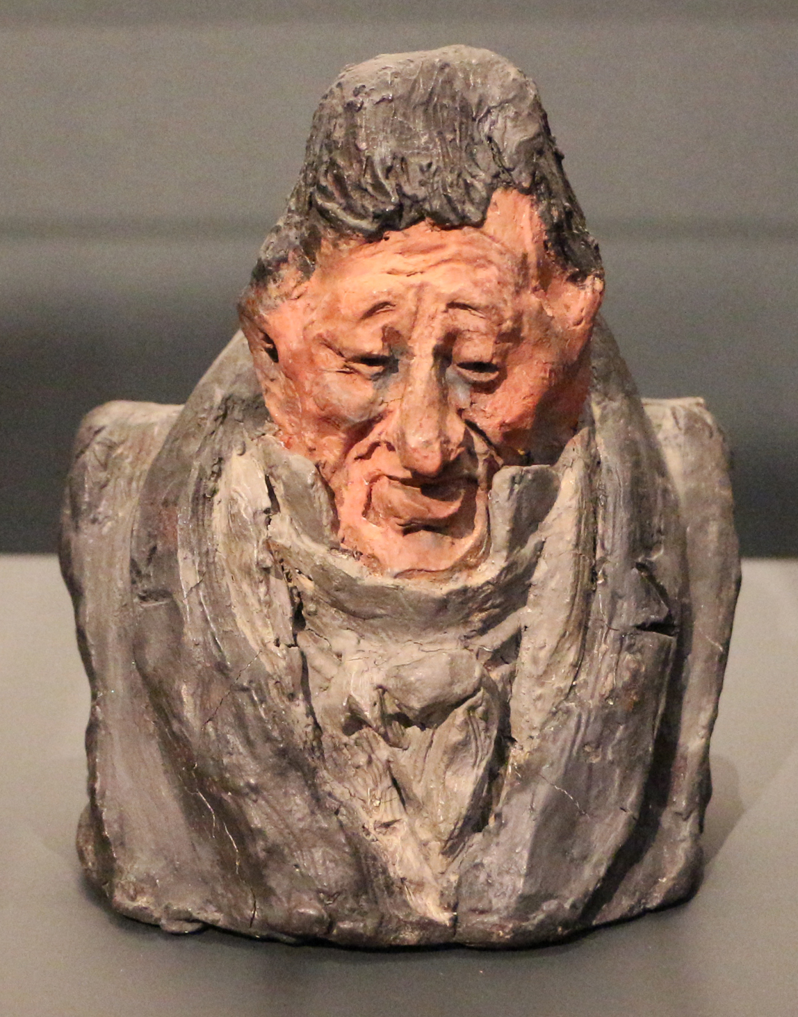 Célébrités du Juste Milieu